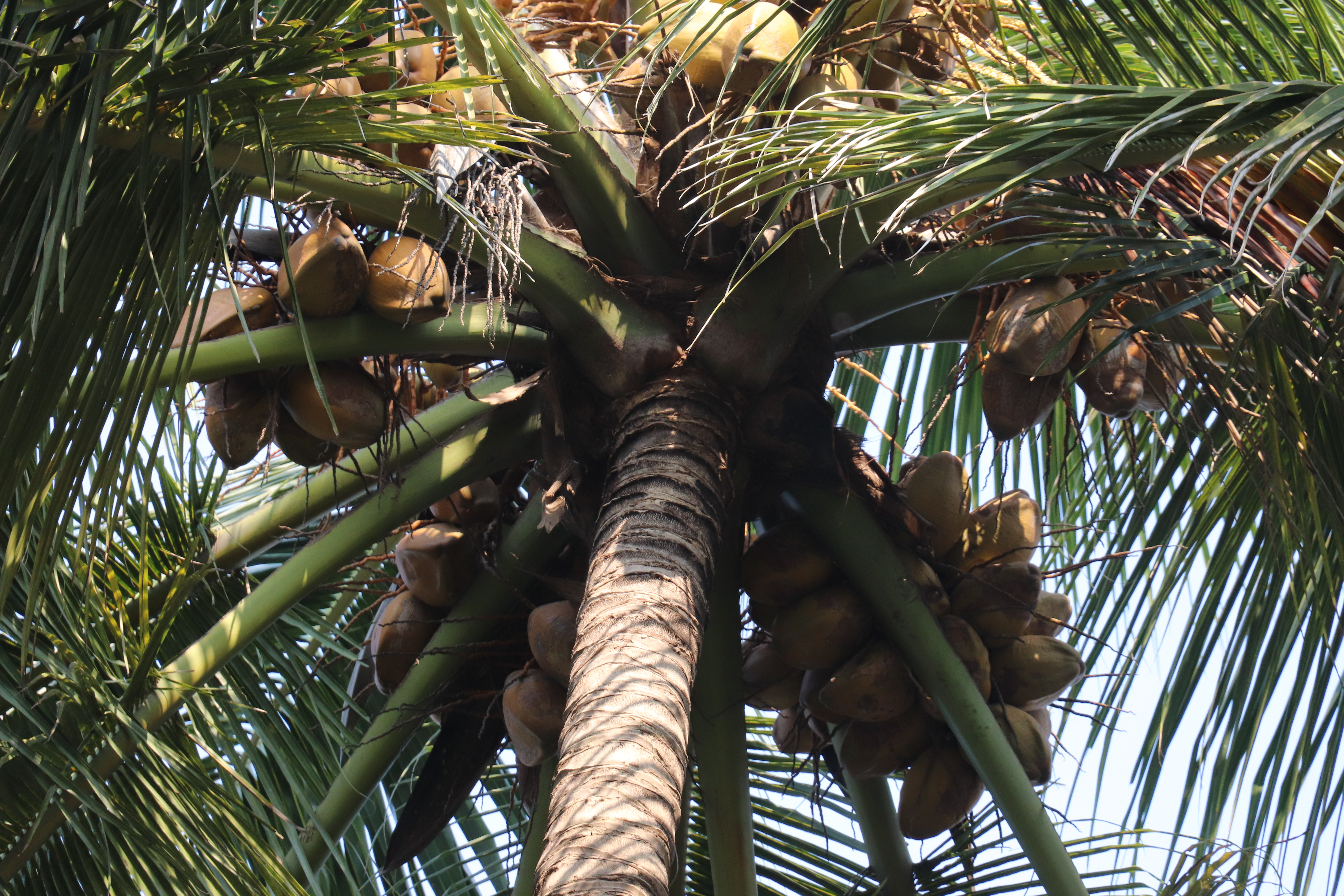 The crown of a coconut palm heavy with fruit. Taken at Gorai, Mumbai.